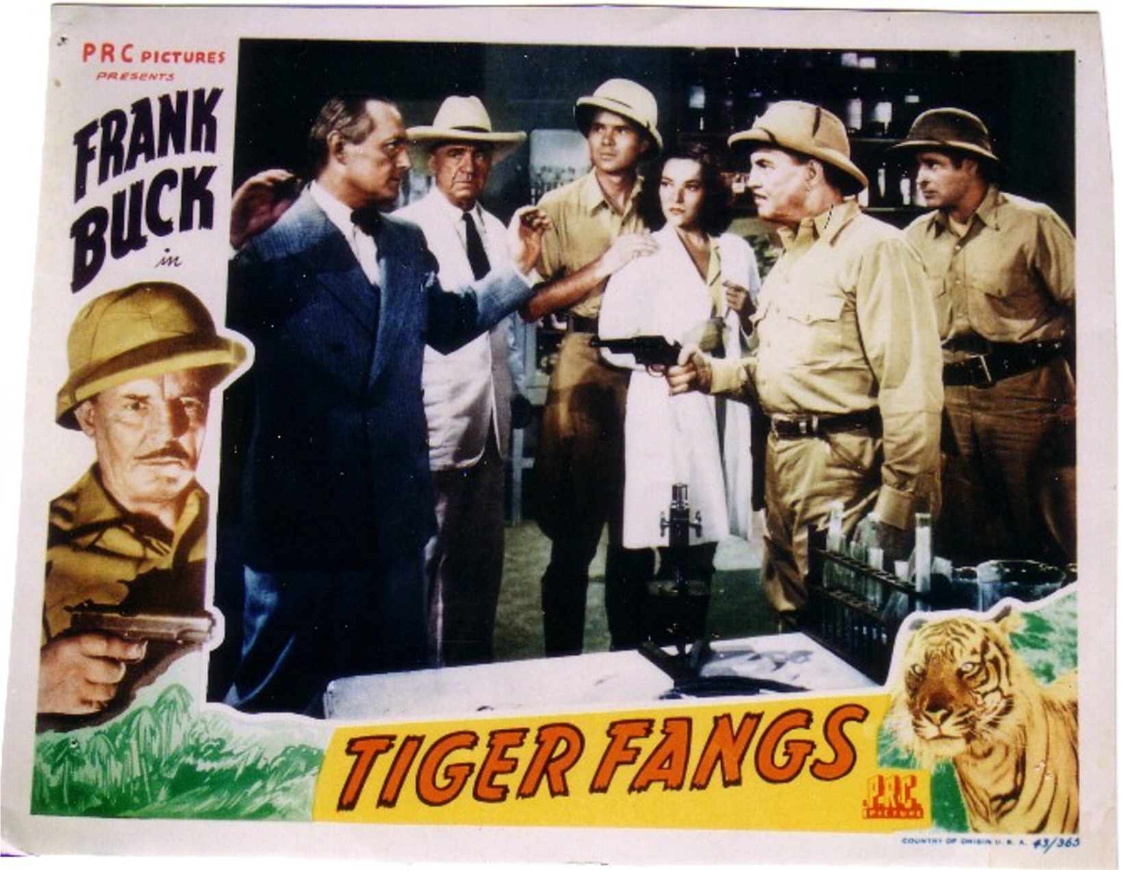 This is a movie poster for the film, Tiger Fangs.